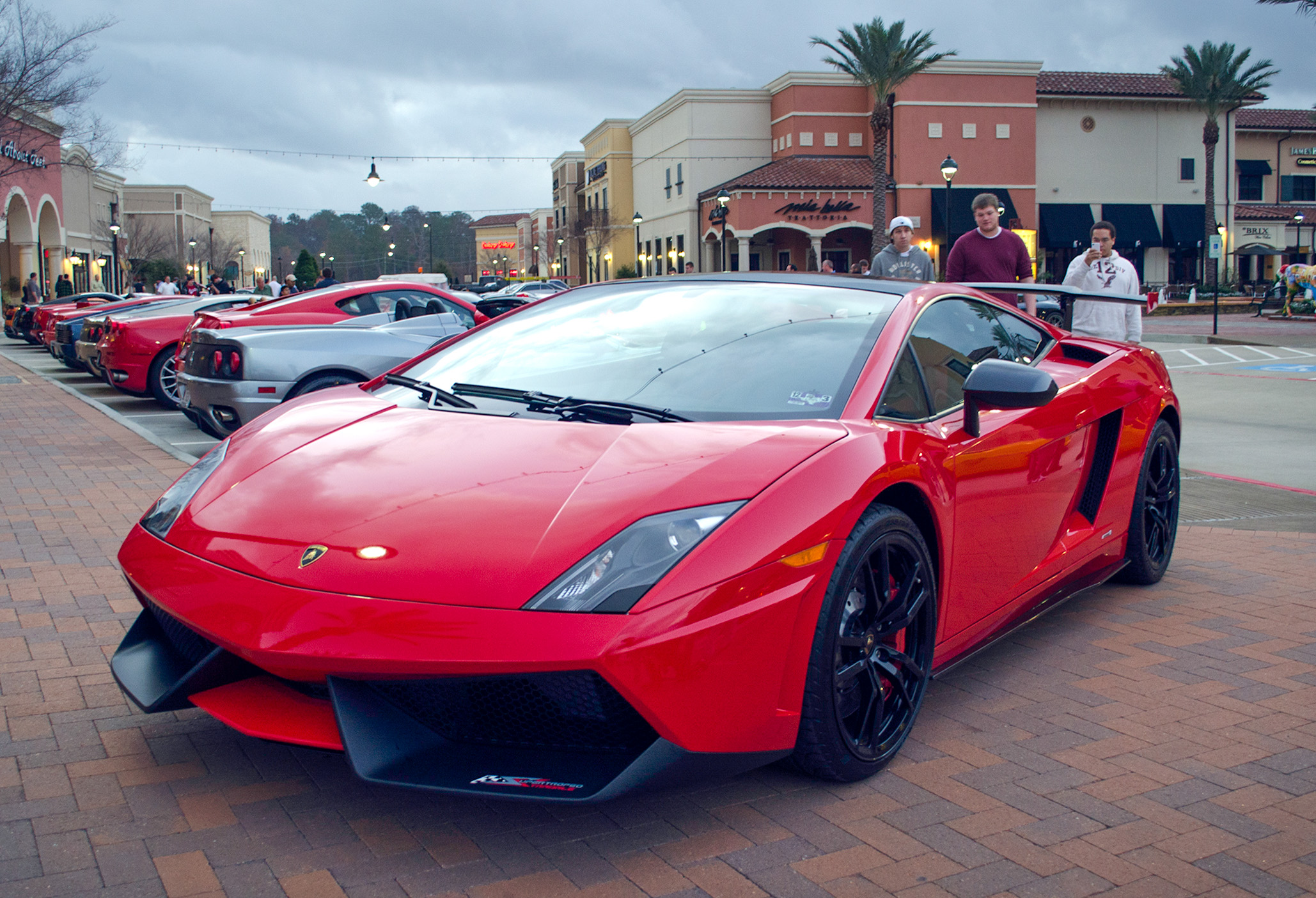 January 2012 Houston Coffee and Cars